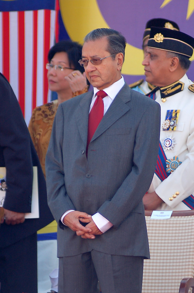 50th Merdeka Malaysian National Day celebrations, depicting Mahathir Mohamad